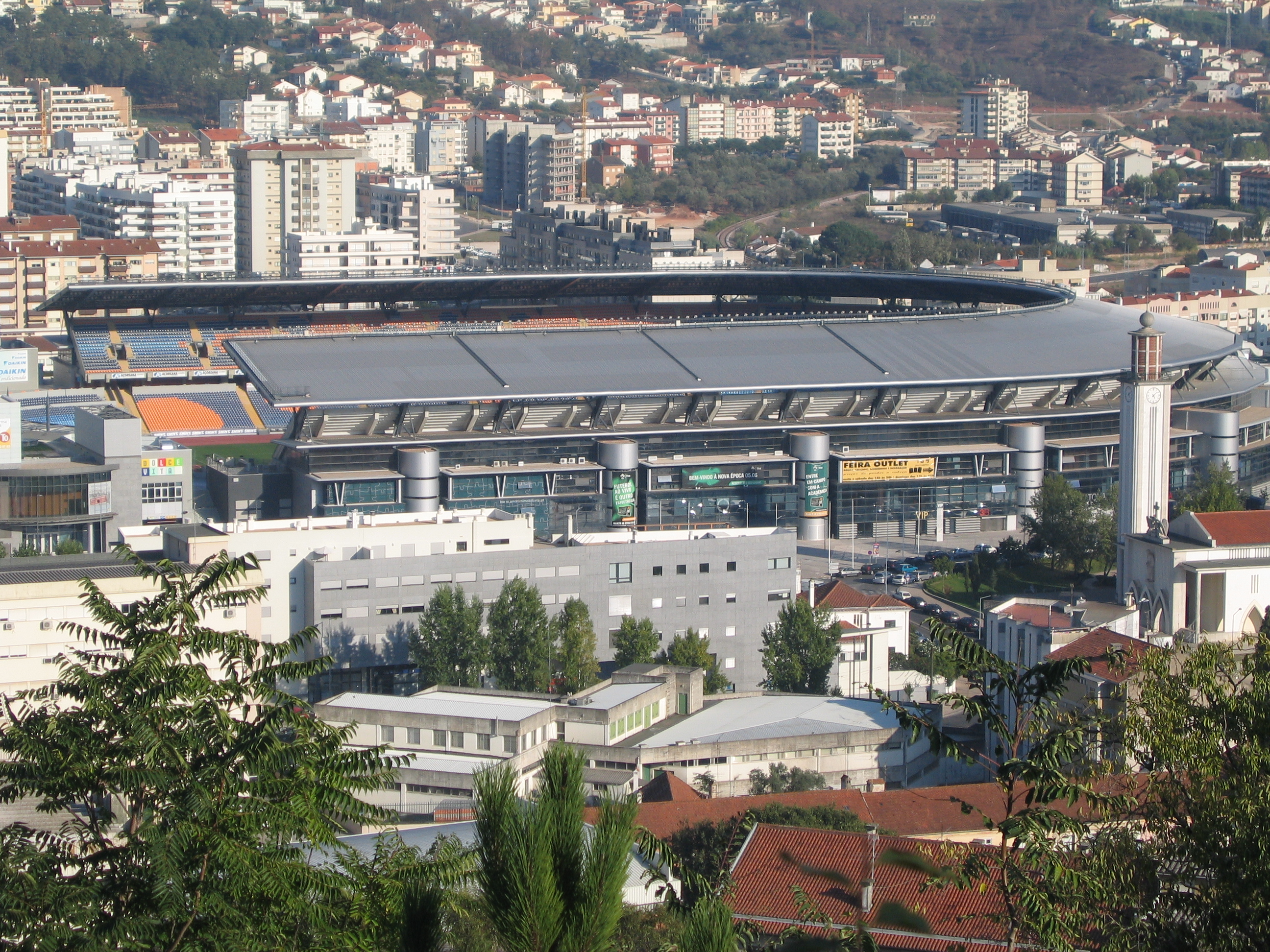 I made it myself with my own digital camera.